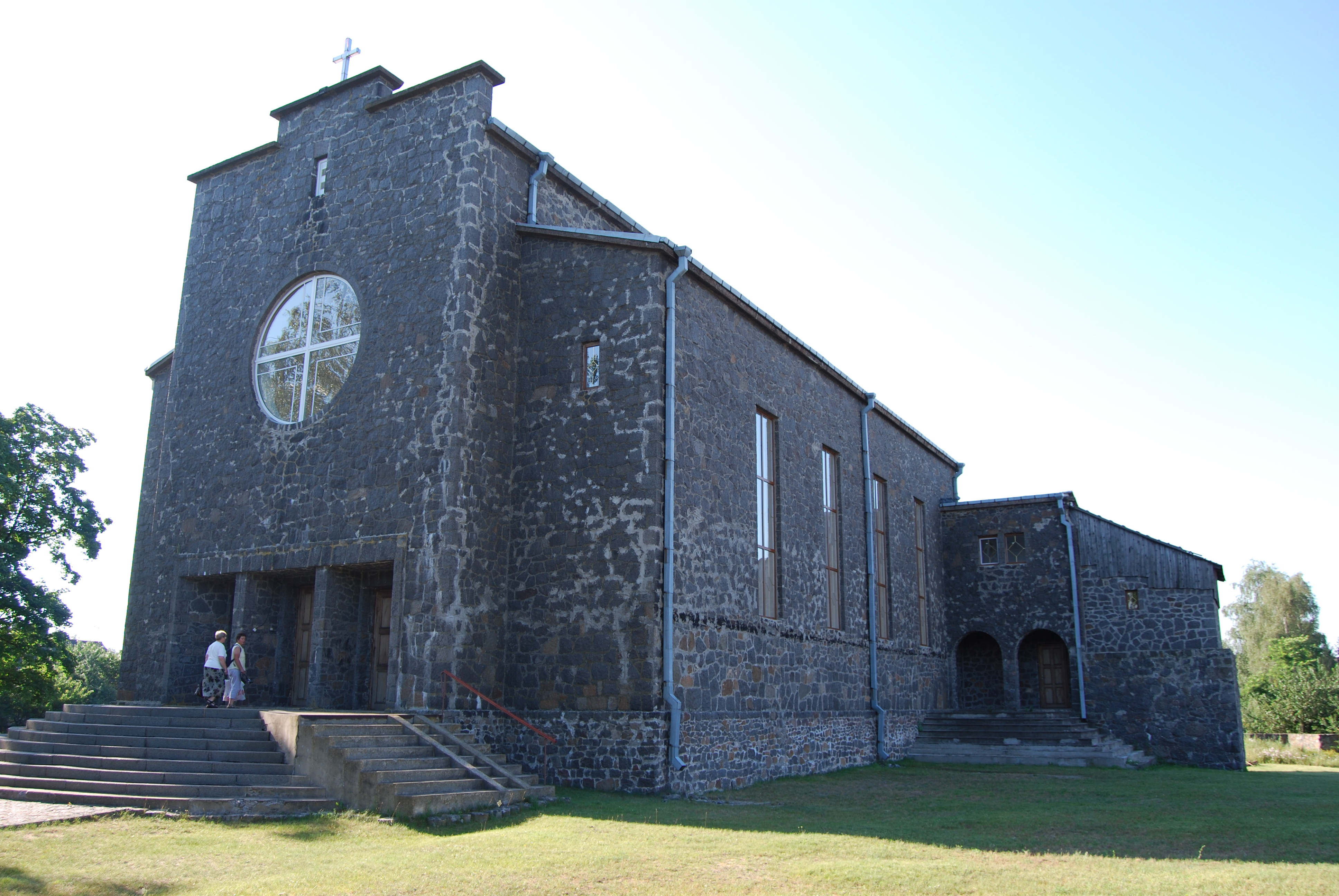 Sarny - the former garrison church of Korpus Ochrony Pogranicza, now the church of fathers Pallottines. Built in early 1920-ties of basalt.